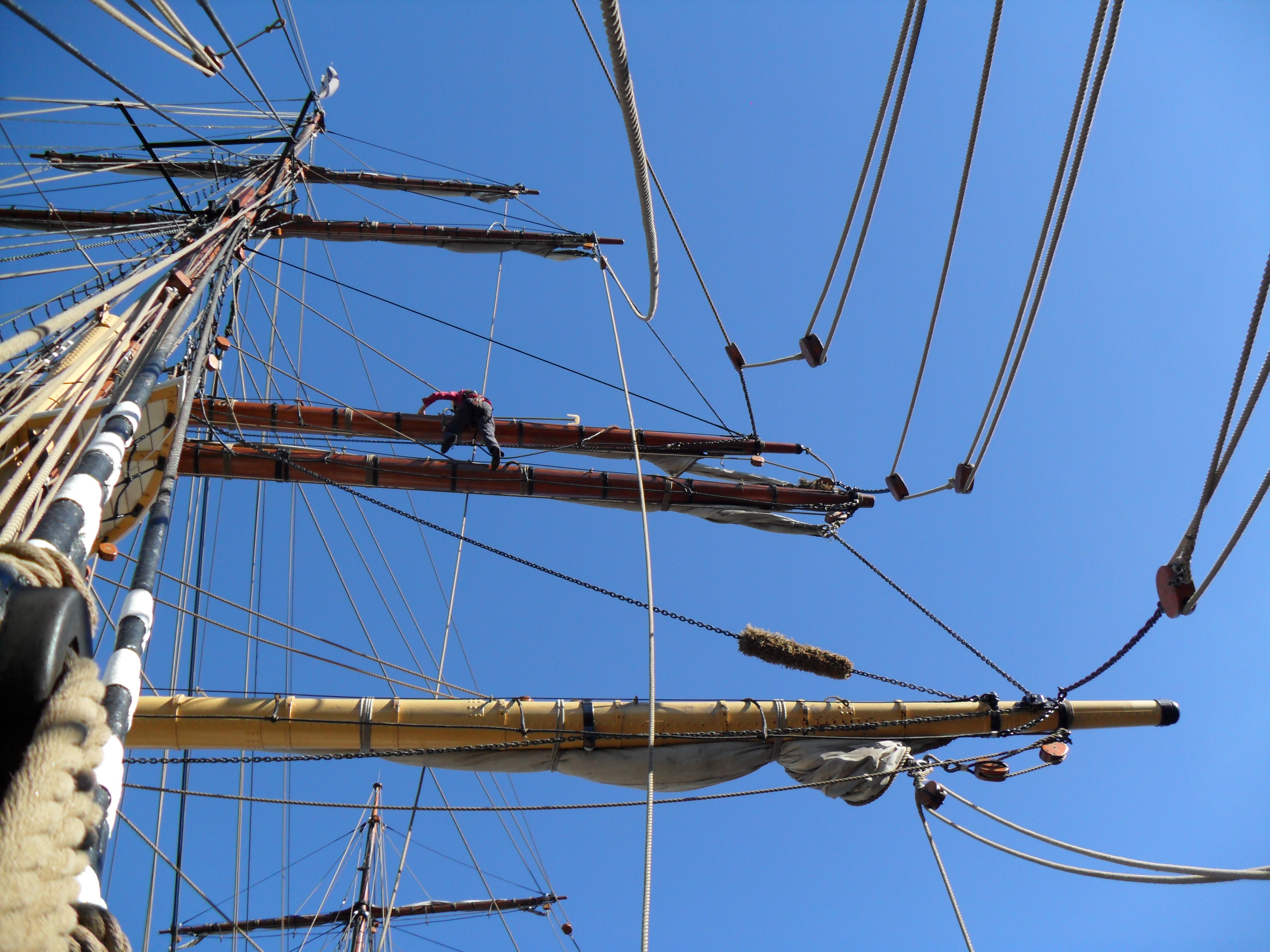 James Craig (barque), yards and brace gear